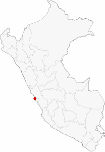 Location of the city of Callao in Peru Created by Tuomas Carrasco - 2005